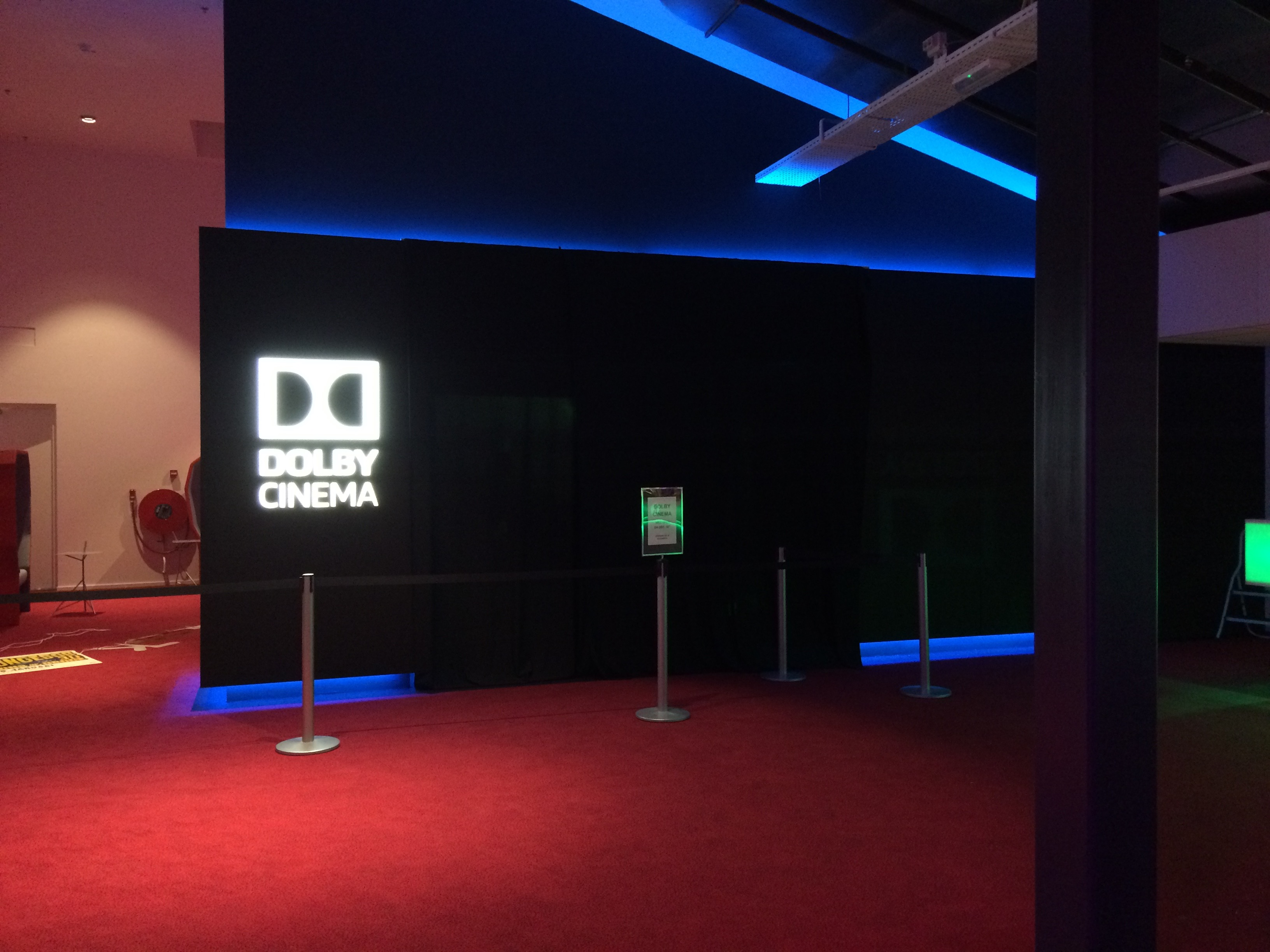 Entrance of the Dolby Cinema theatre in Eindhoven